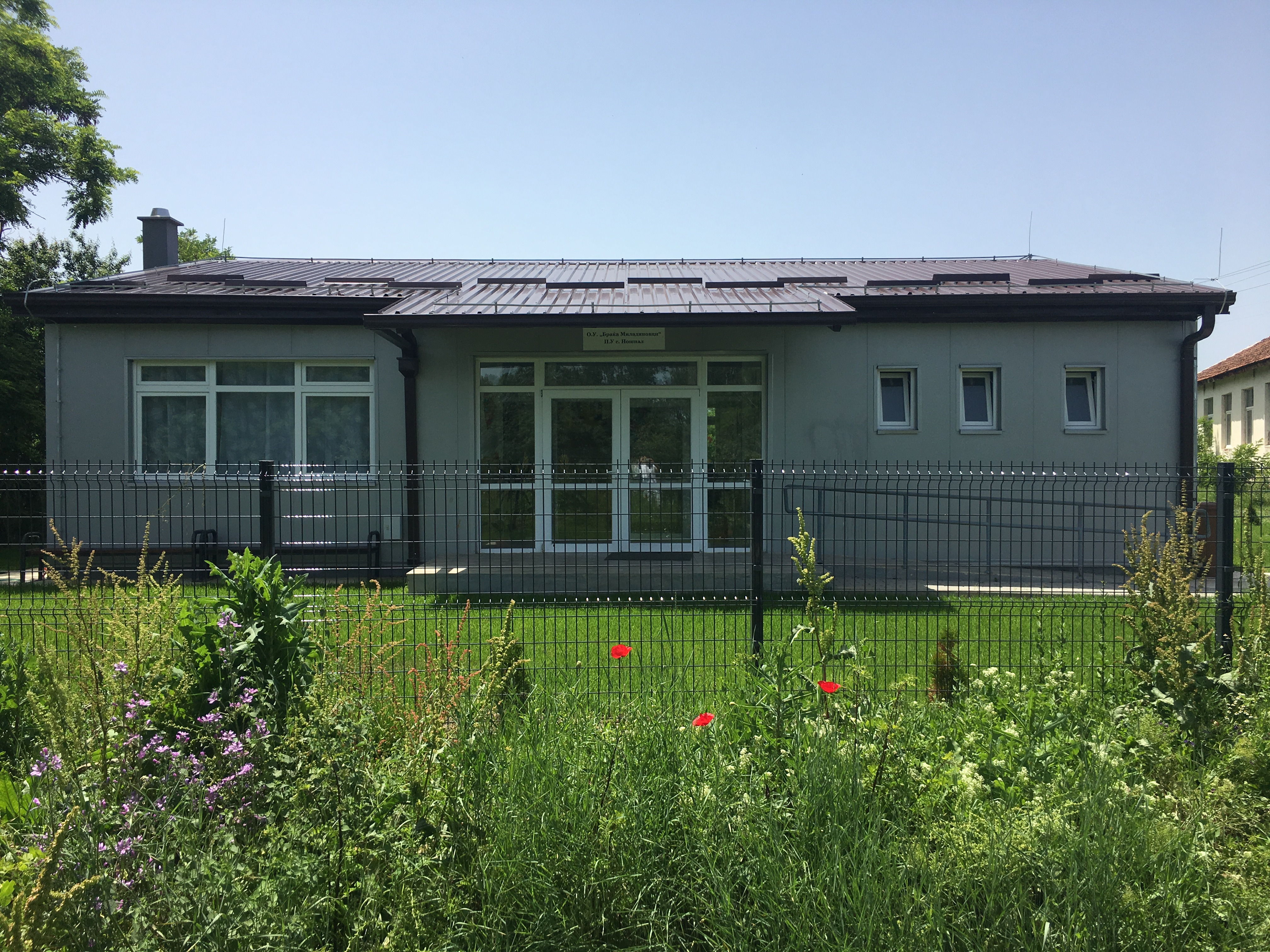 Miladinov Brothers Primary School in the village of Nošpal